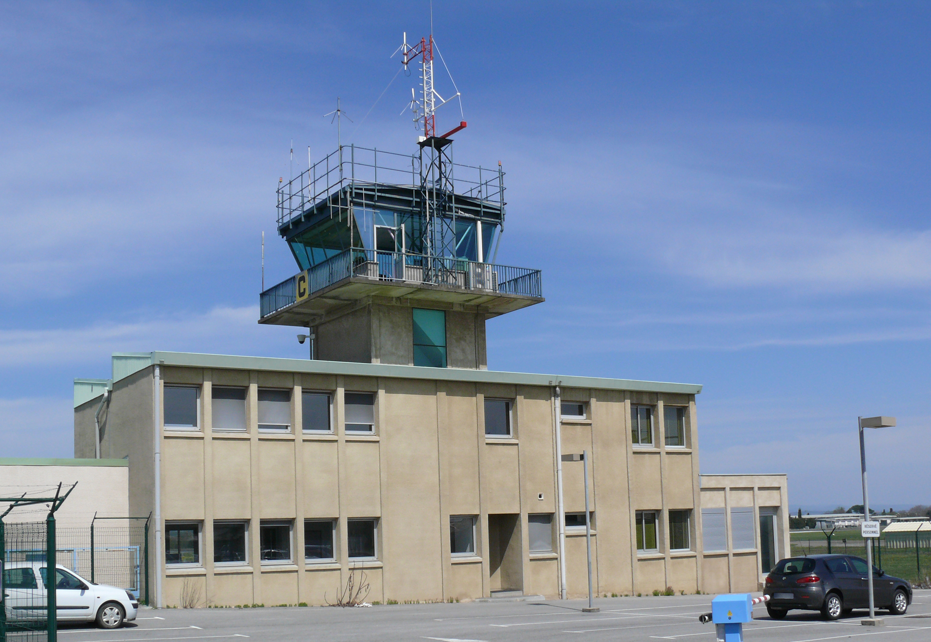 Control tower of Carcassonne Airport (Aéroport de Carcassonne en Pays Cathare).